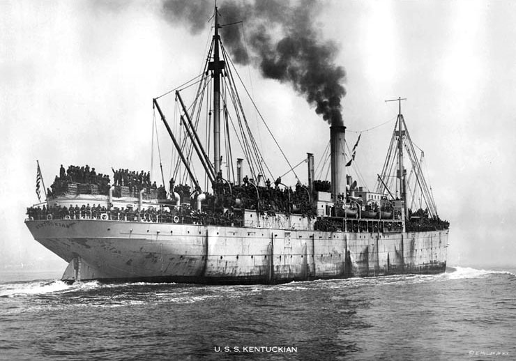 USS Kentuckian (ID # 1544) Arriving in U.S. waters, while transporting troops home from Europe in 1919. Photographed by Enrique Muller, Jr., New York. Donation of Dr. Mark Kulikowski, 2006. U.S. Naval Historical Center Photograph.